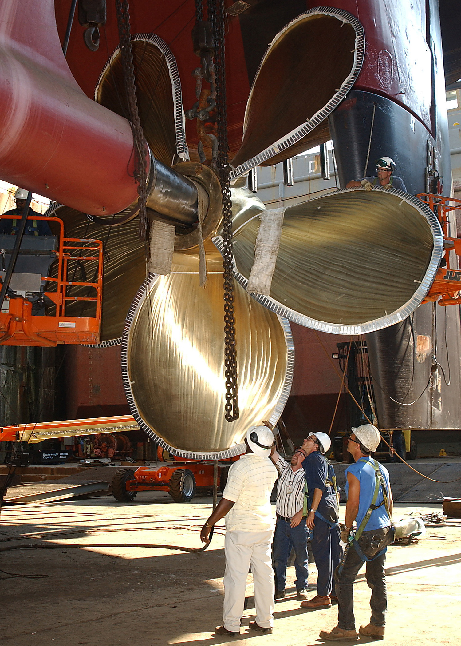 050723-N-9132D-034 Newport News, Va. - Northrop Grumman Newport News Shipyard employees reattach a propeller to the number three shaft aboard the Nimitz-class aircraft carrier USS George Washington (CVN 73). The ship has four brass propellers that are 22 feet in diameter and weigh 66,200 pounds. Washington is currently undergoing a docked Planned Incremental Availability at the Northrop Grumman Newport News Shipyard.